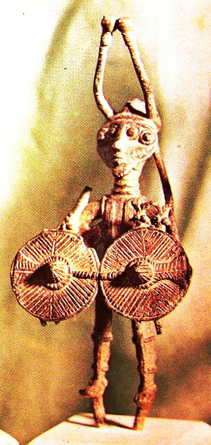 Sardinia - Italy - Bronzetto sardo - guerriero nuragico. By --Shardan 16:38, 14 September 2007 (UTC)